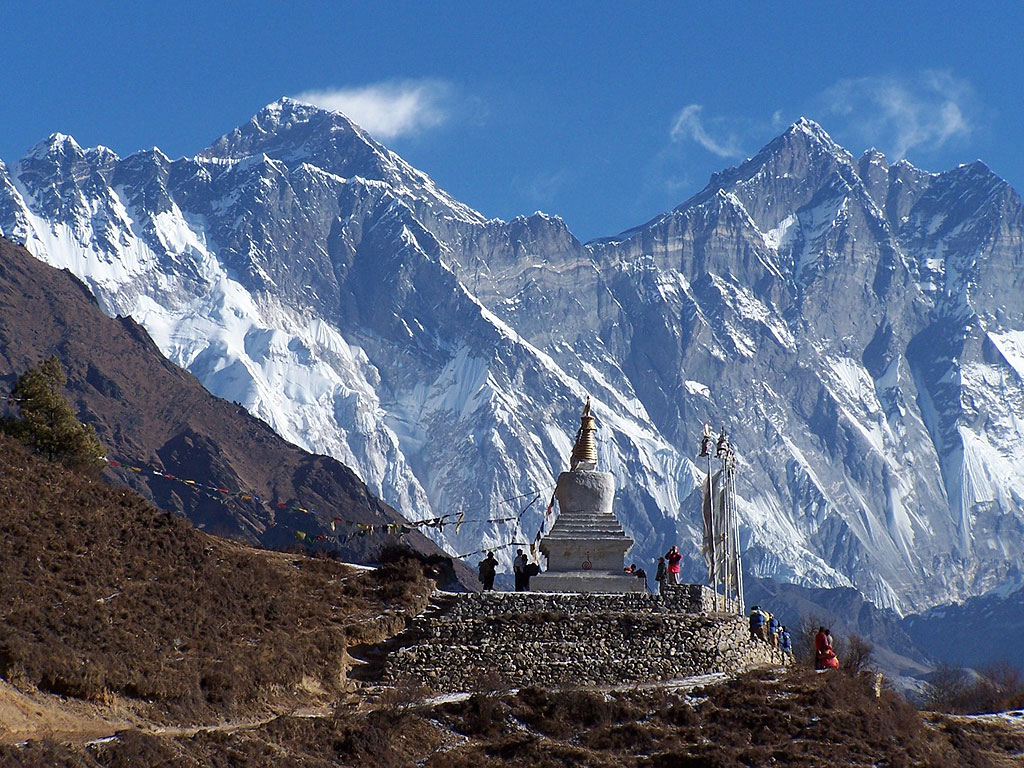 It is the seen of sagarmatha national park.